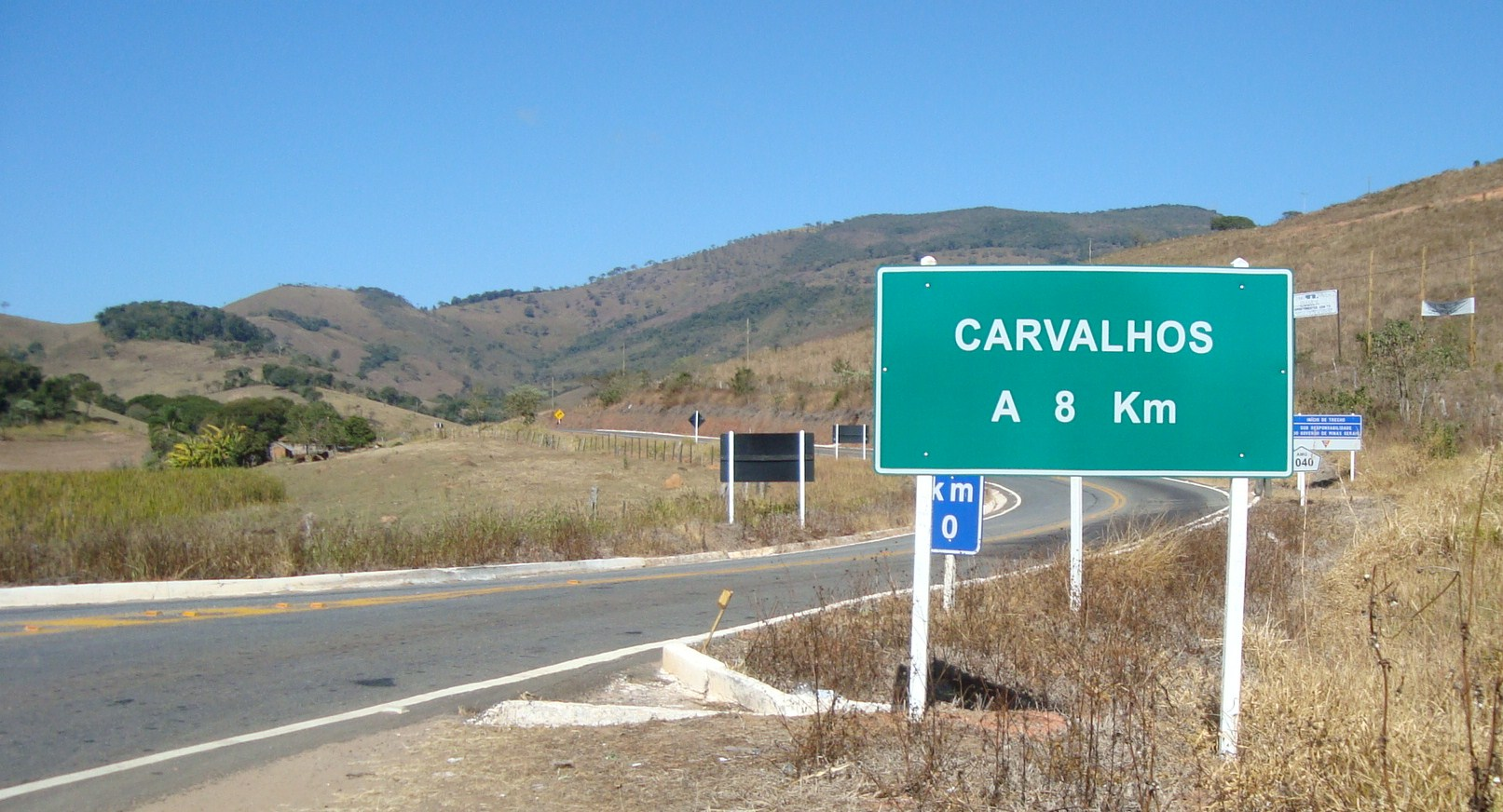 Road AMG-1040 in Carvalhos, Minas Gerais, Brazil